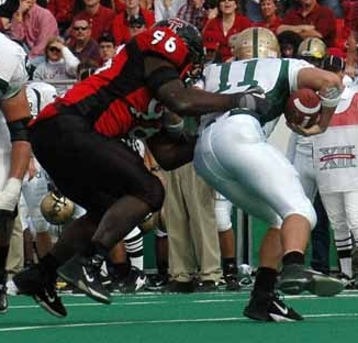 Keyunta Dawson. From Texas Tech Red Raiders vs Baylor Bears in 2004.